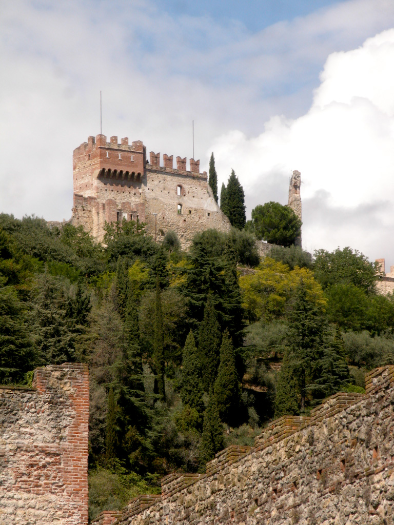 Marostica castle.